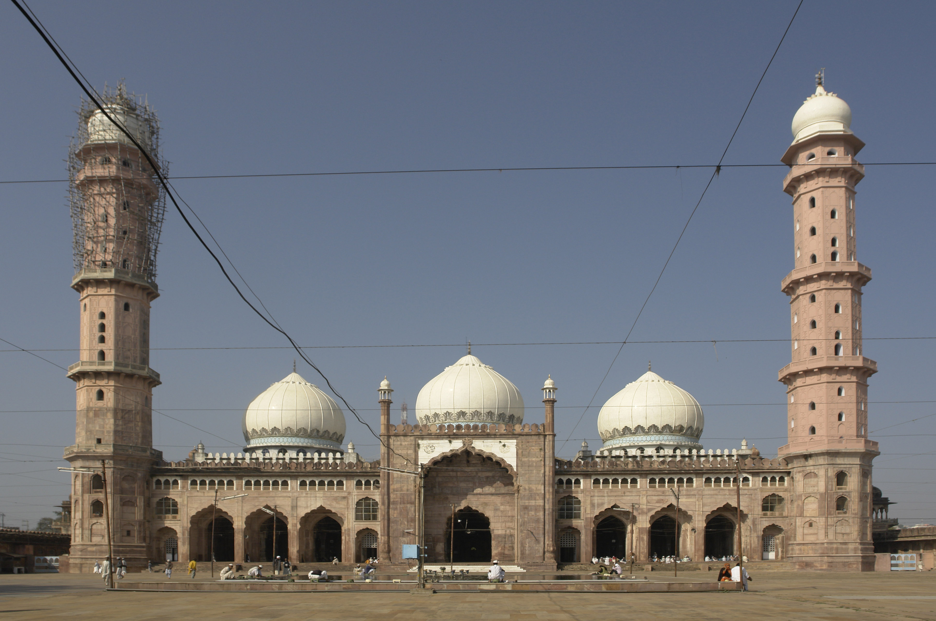 Taj-ul-Masjid, Bhopal, India.